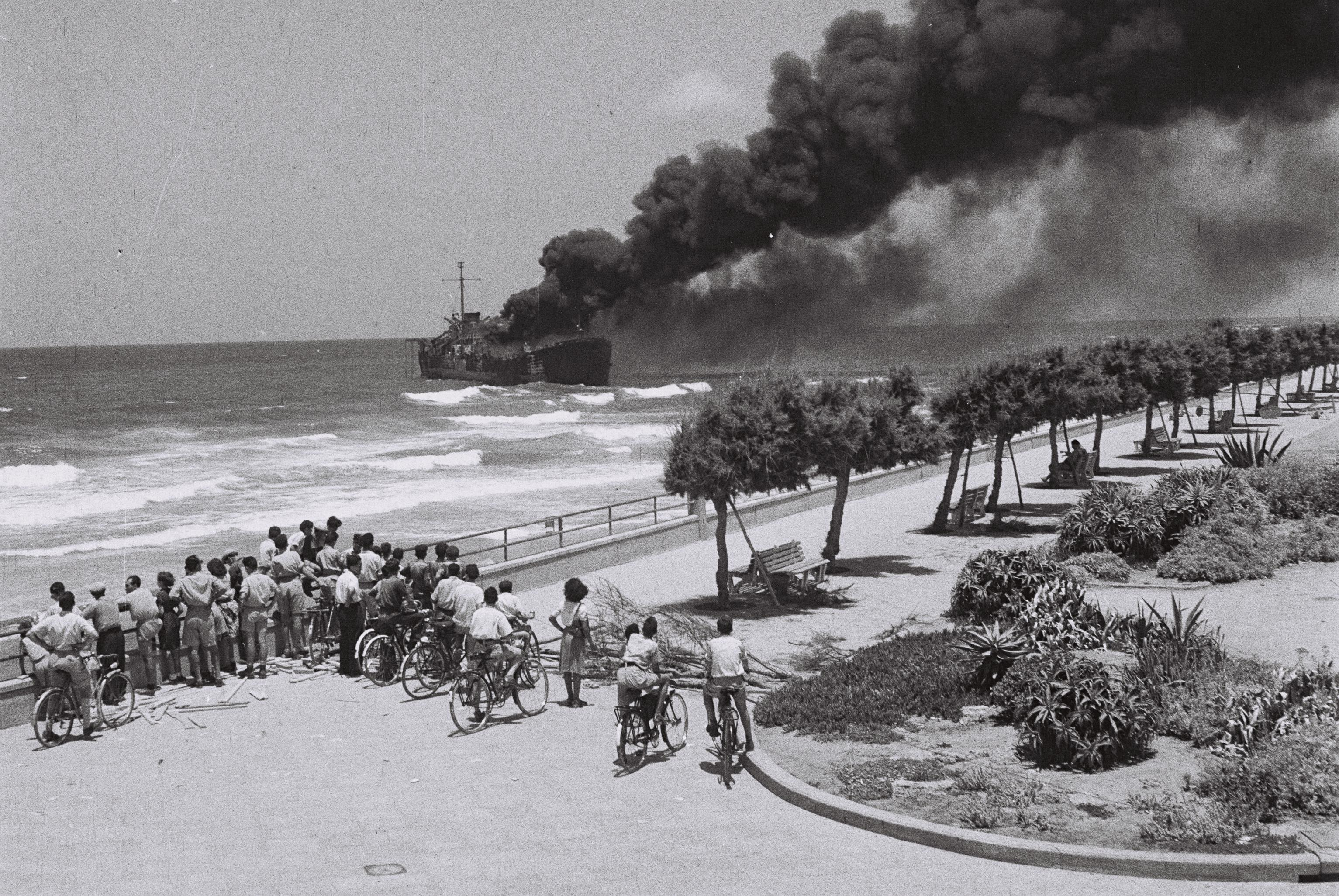 June 1948. The ship Altalena on fire after being shelled near Tel-Aviv. Altalena was a ship of the right wing zionist organisation “Irgun”, which tried to give weapons to the fighters of Irgun in Israel. The Israeli government refused the existence of weapons furnitures without the control of IDF, and fought against the boat.